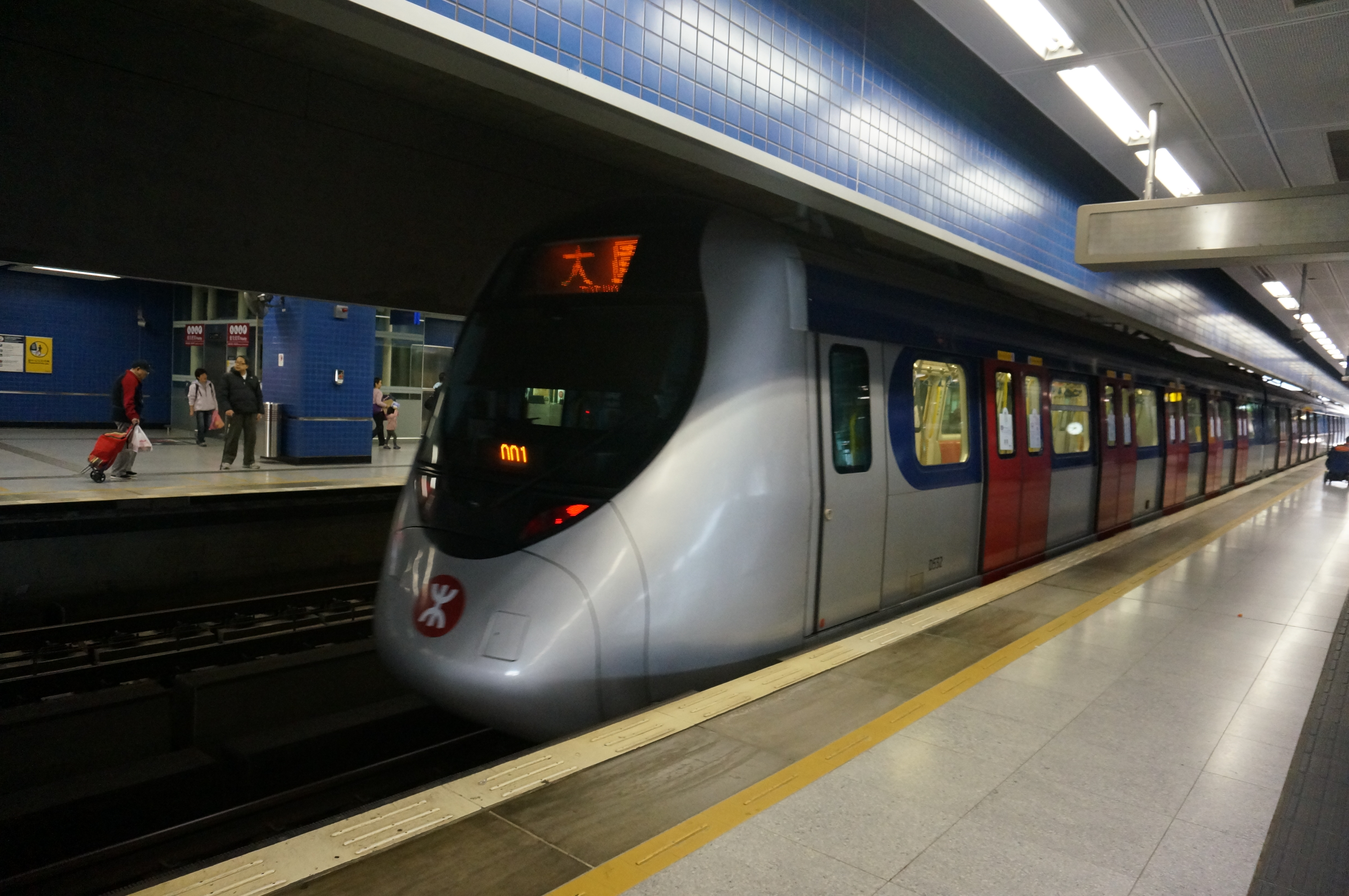 MTR SP1950 EMU exterior (taken at Tai Wai Station platform 3) 中文（香港）: 港鐵SP1950列車 (攝於大圍站3號月台)